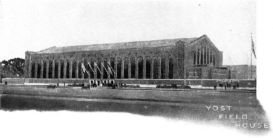 Photograph of Yost Ice Arena, c. 1923